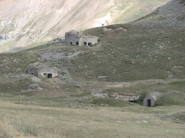 Vue de trois casemates de l'avant-poste (B1, B4 et B5)